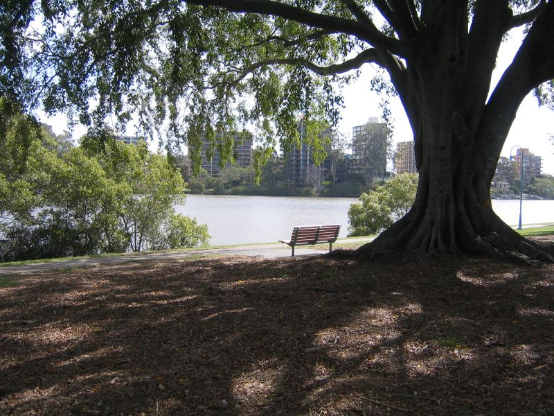 Photo of the Orleigh Park taken in 2006 by User:Lilywantanabe and released under the GFDL.